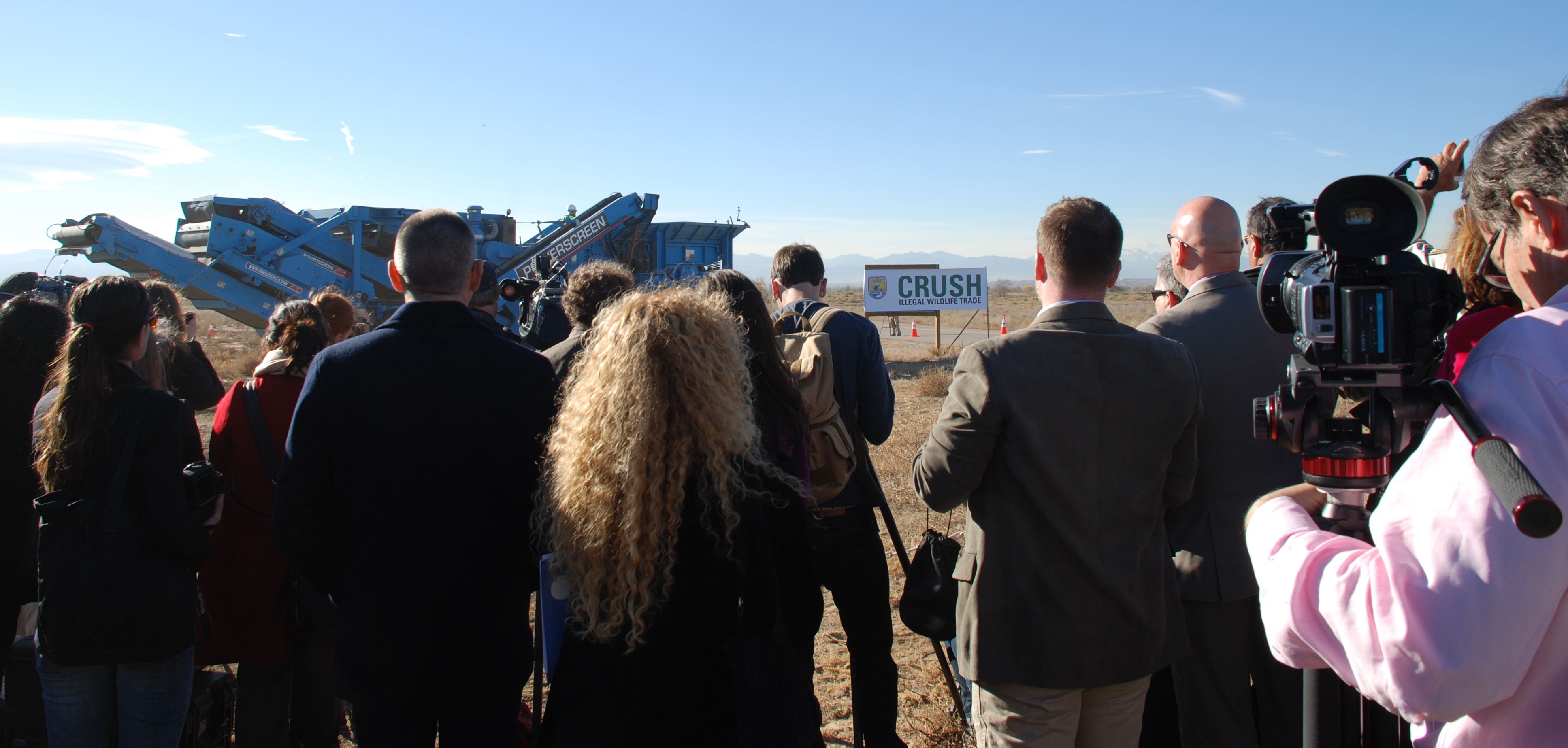 Photo Credit: Kate Miyamoto / USFWS USFWS ivory crush at Rocky Mountain Arsenal National Wildlife Refuge on November 14, 2013